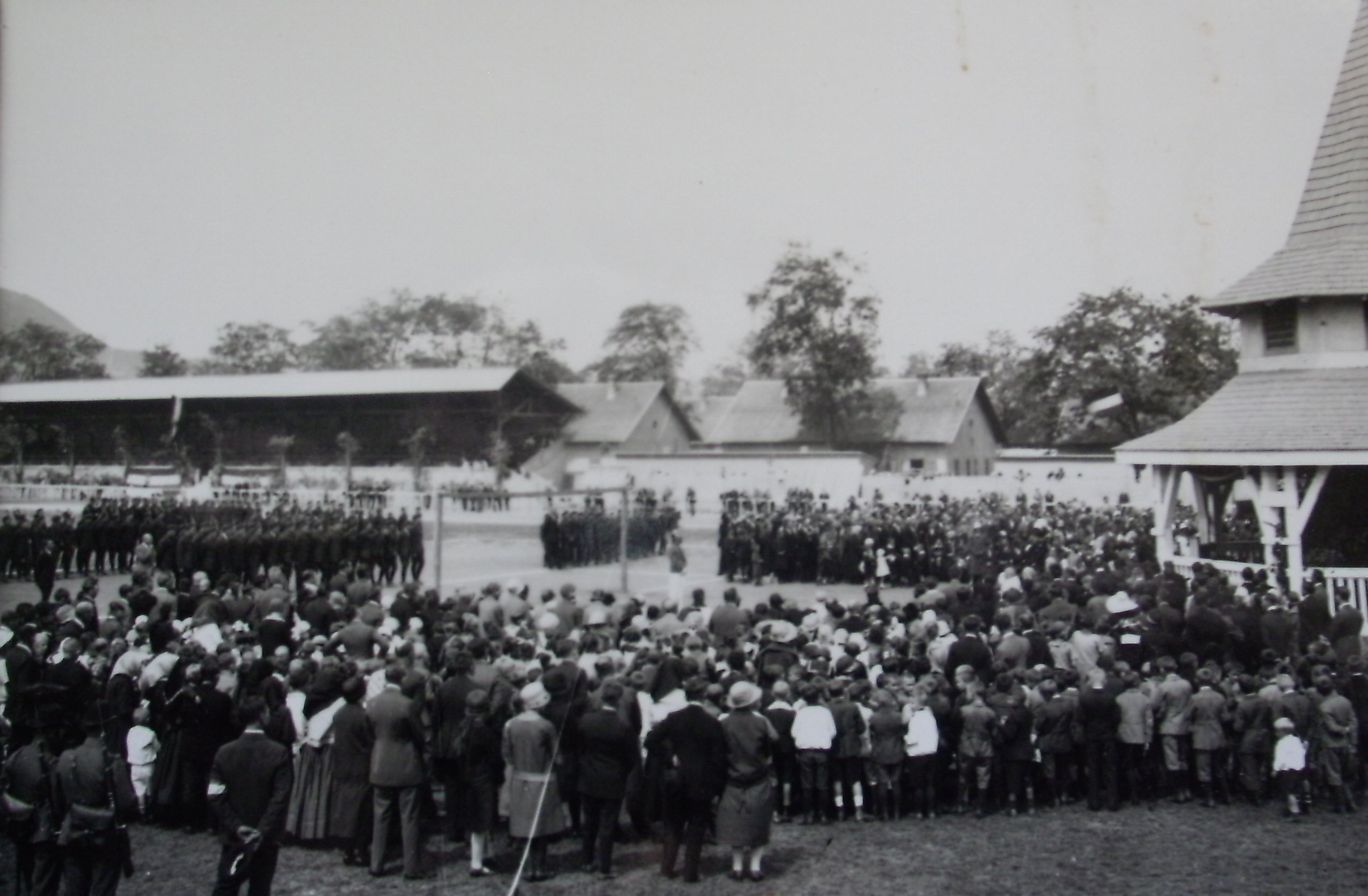 The stadium is hetero functional. This is good sample for it